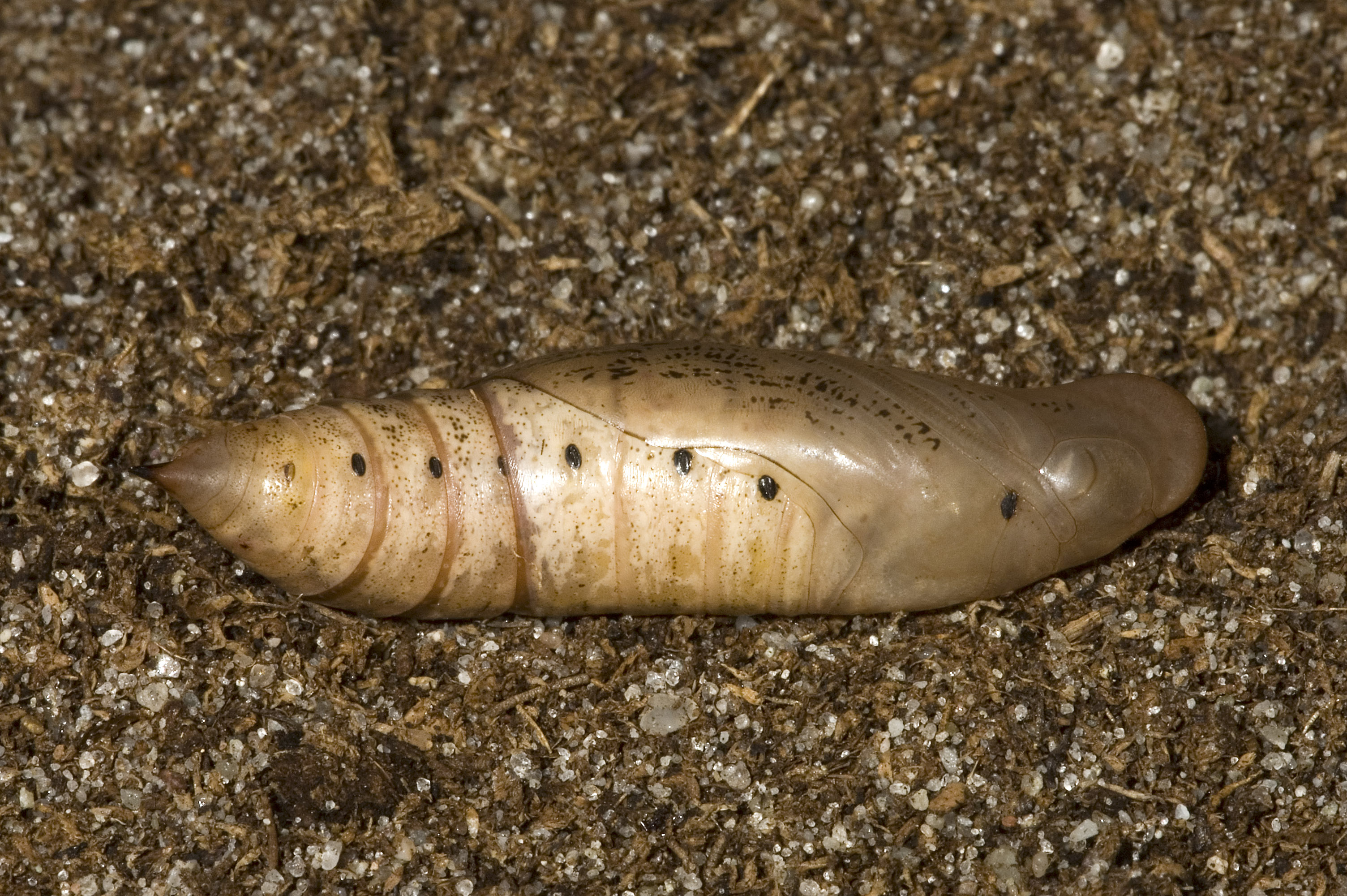 Hummingbird Hawk-moth